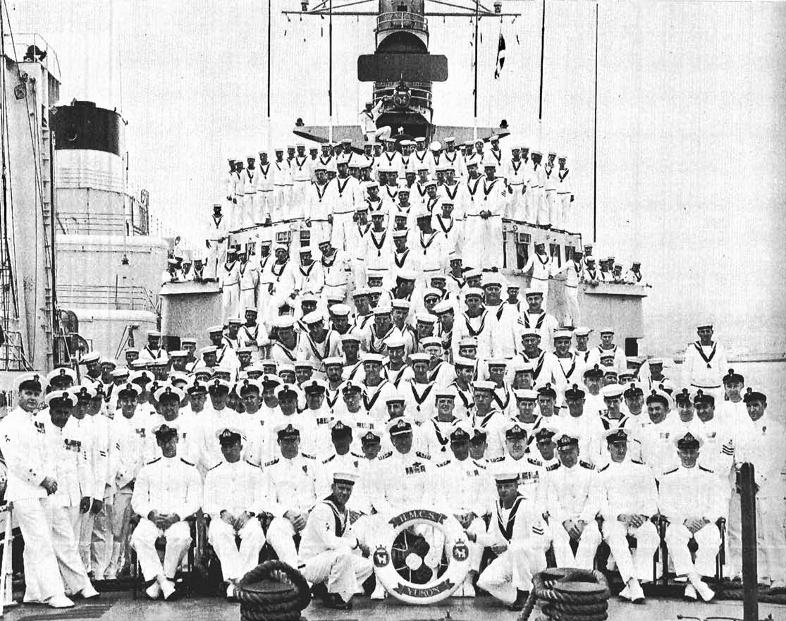 A crew portrait of the HMCS Yukon (DDE 263) in July 1964. Original caption: “FAMILY PORTRAIT - This group portrait of the officers and men of HMCS Yukon was taken in the sunny Canary Islands in mid-July, when the destroyer escort, in compony with HMCS Provider, visited Puerta de la Luz, port of Las Palmas, Gran Canaria.”